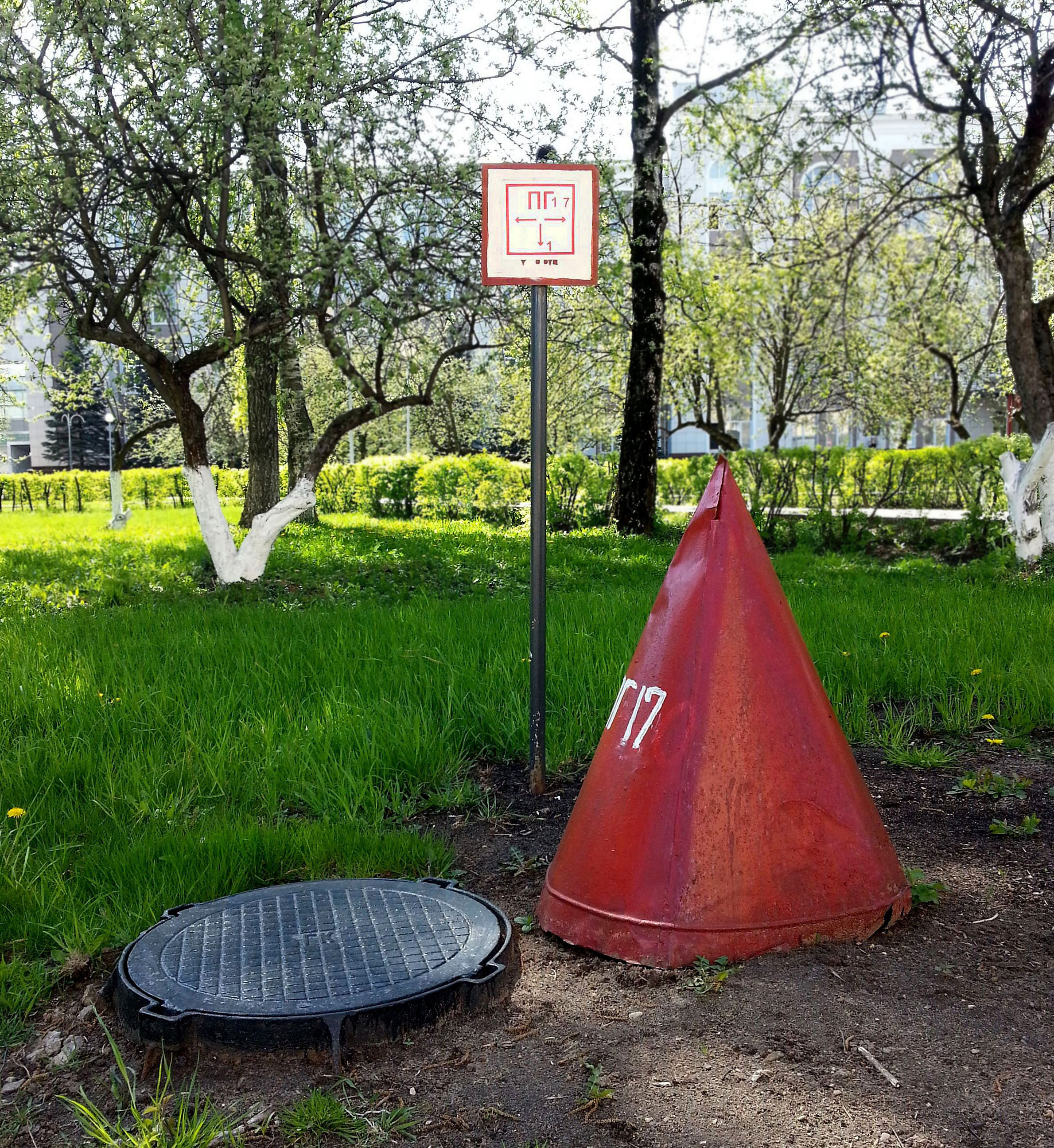 The underground fire hydrant marked with a hydrant plate and a red cone.Korolyov, Moscow Oblast, Russia.